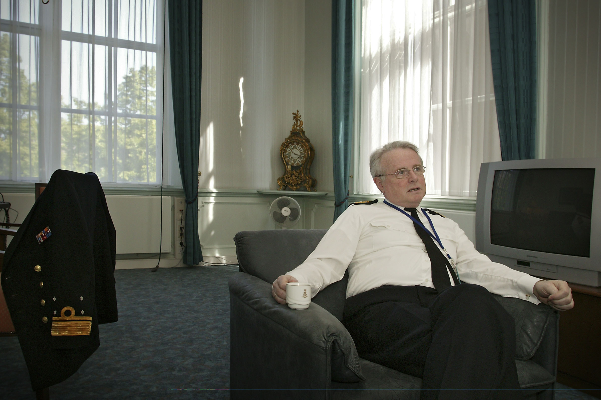 Former Chief of the Netherlands Defence Staff lieutenant admiral Luuk Kroon (1942-2012)